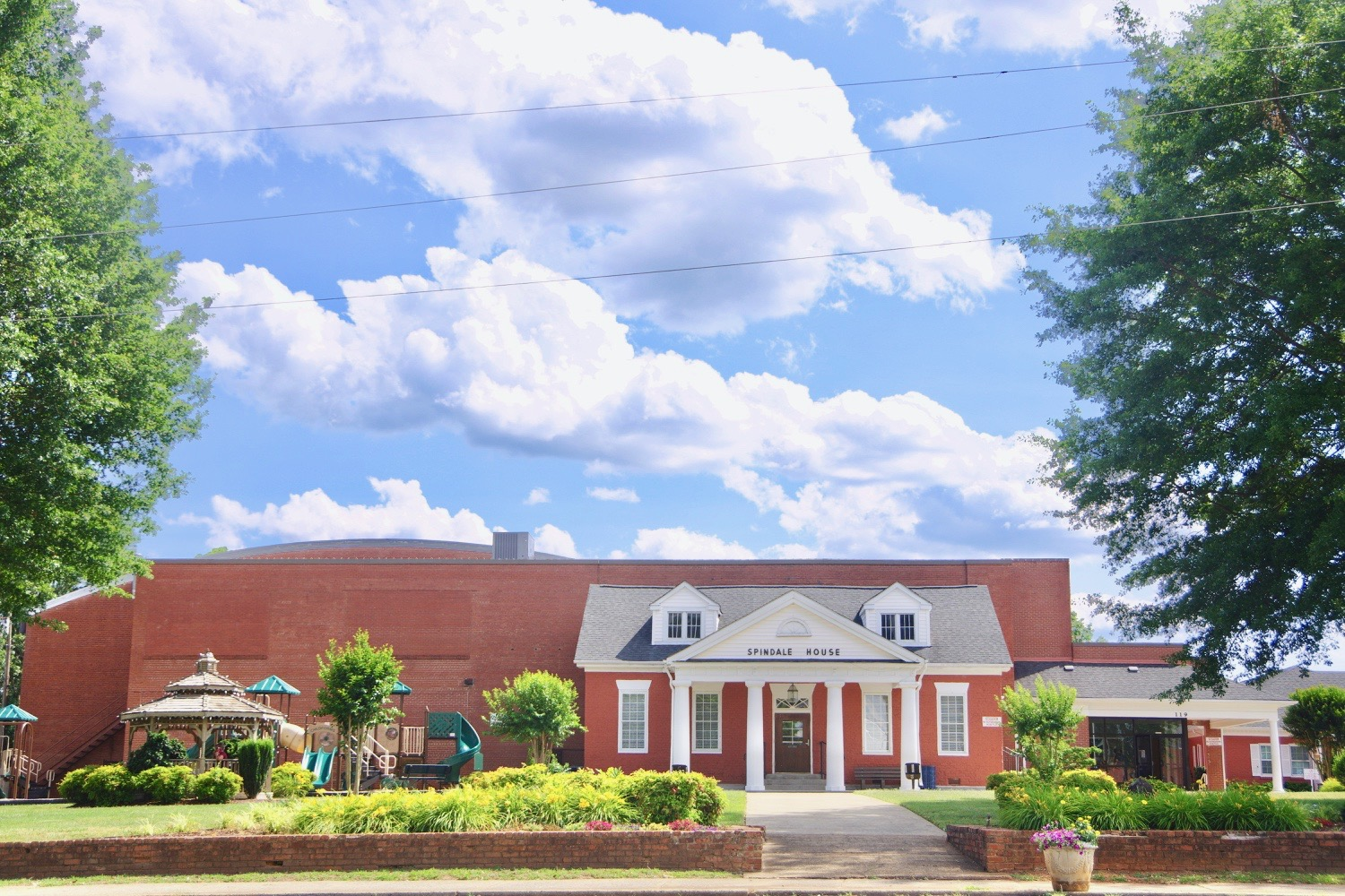 Spindale House, a community center in Spindale, North Carolina, United States.